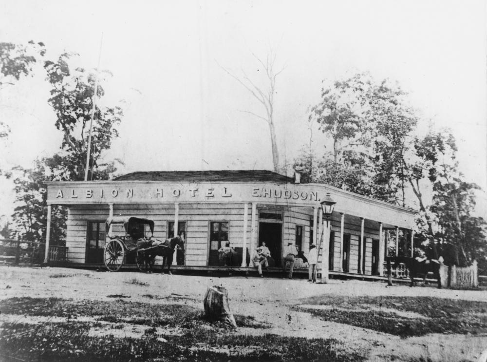 Albion Hotel, Brisbane, ca. 1866. Hudson was the proprietor the hotel from 1866 to 1870. Thomas Hazledon built this hotel in about 1864 and named it Albion.